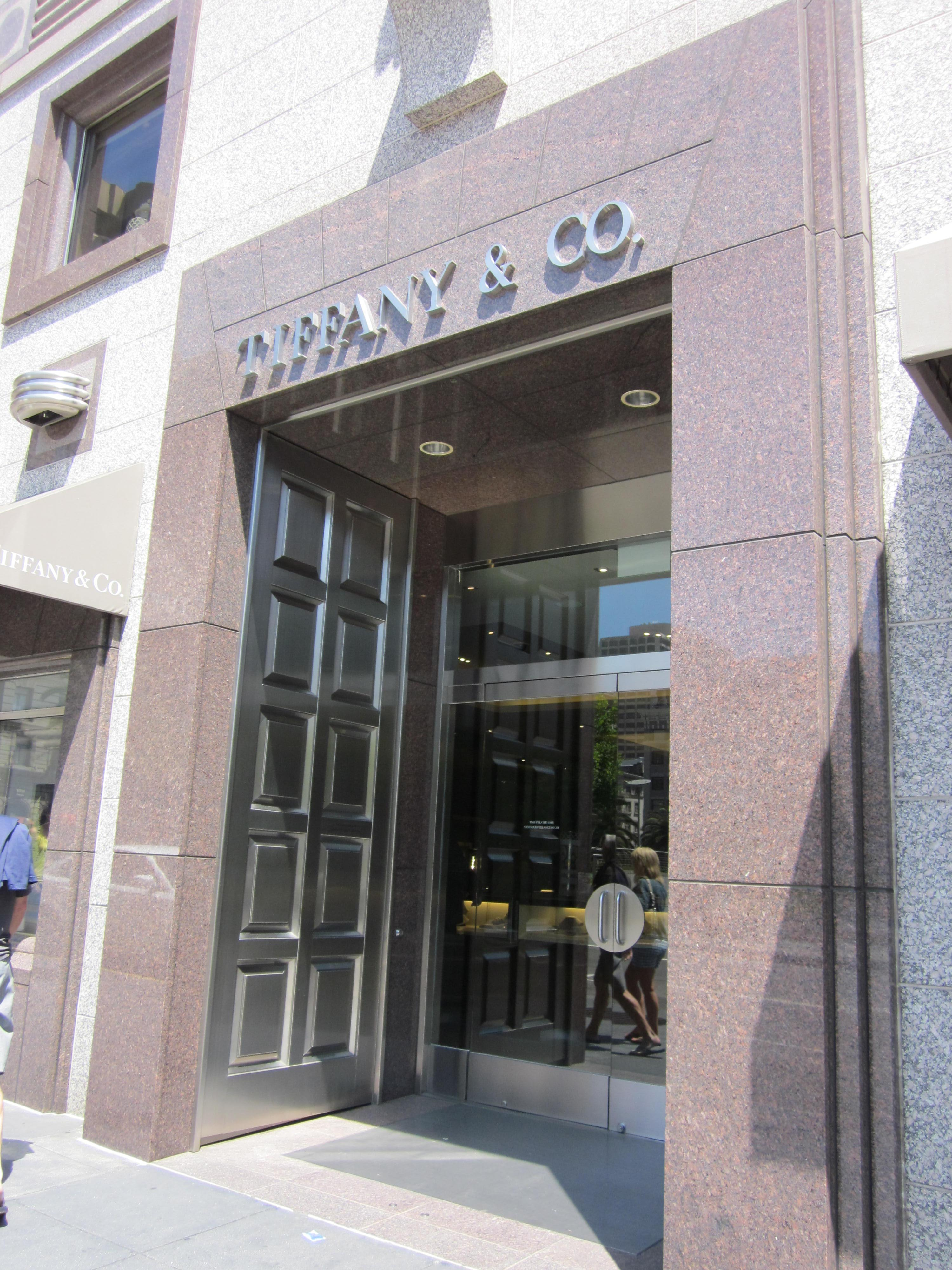 Tiffany & Co. near Union Square, San Francisco.